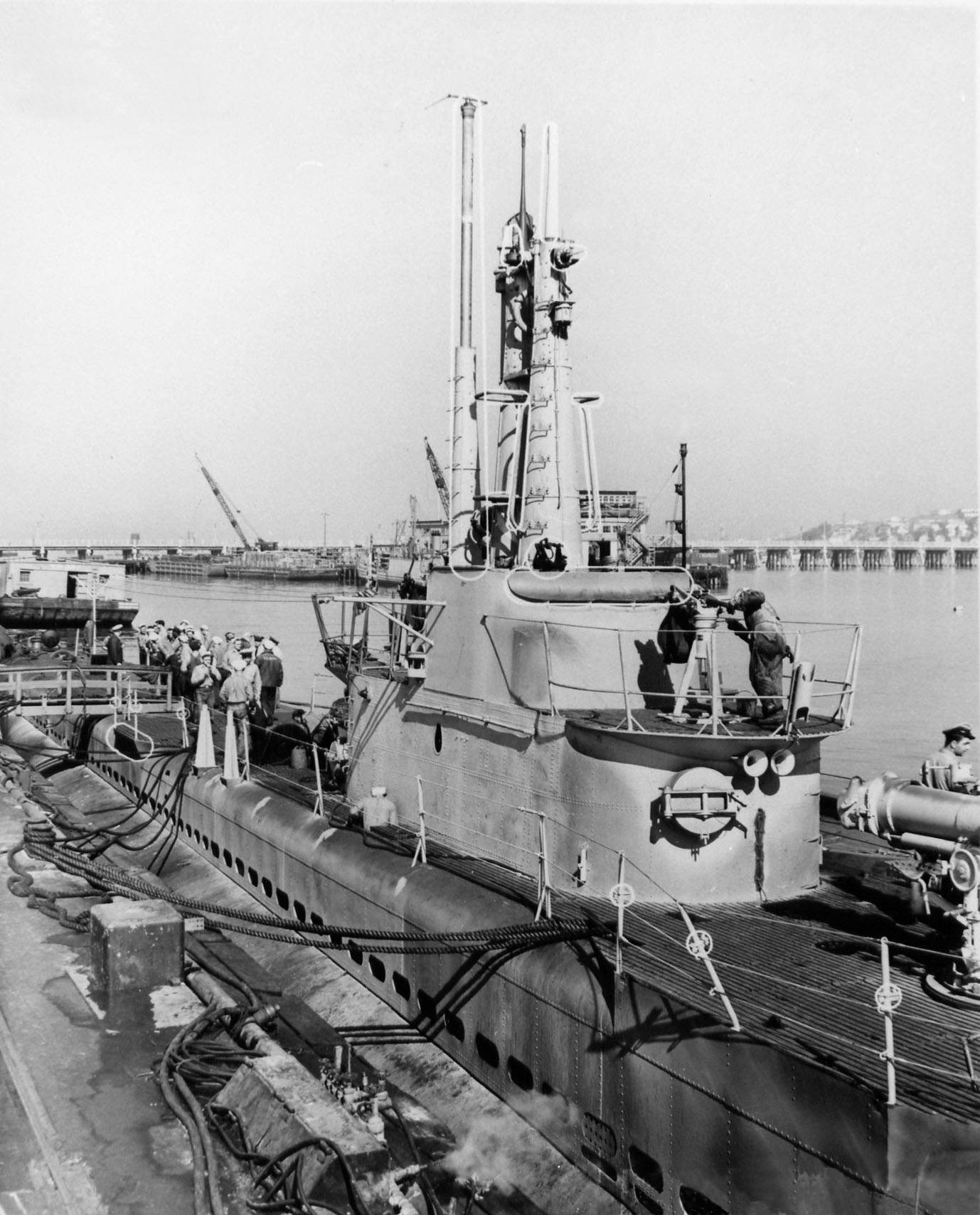 The Balao (SS-285) October 1944 at Mare Island, looking aft, shows the addition of a new number one scope and hinges mounted on the stanchions around the guns. They were used to lower the lifeline for a lower angle of fire of the deck guns.